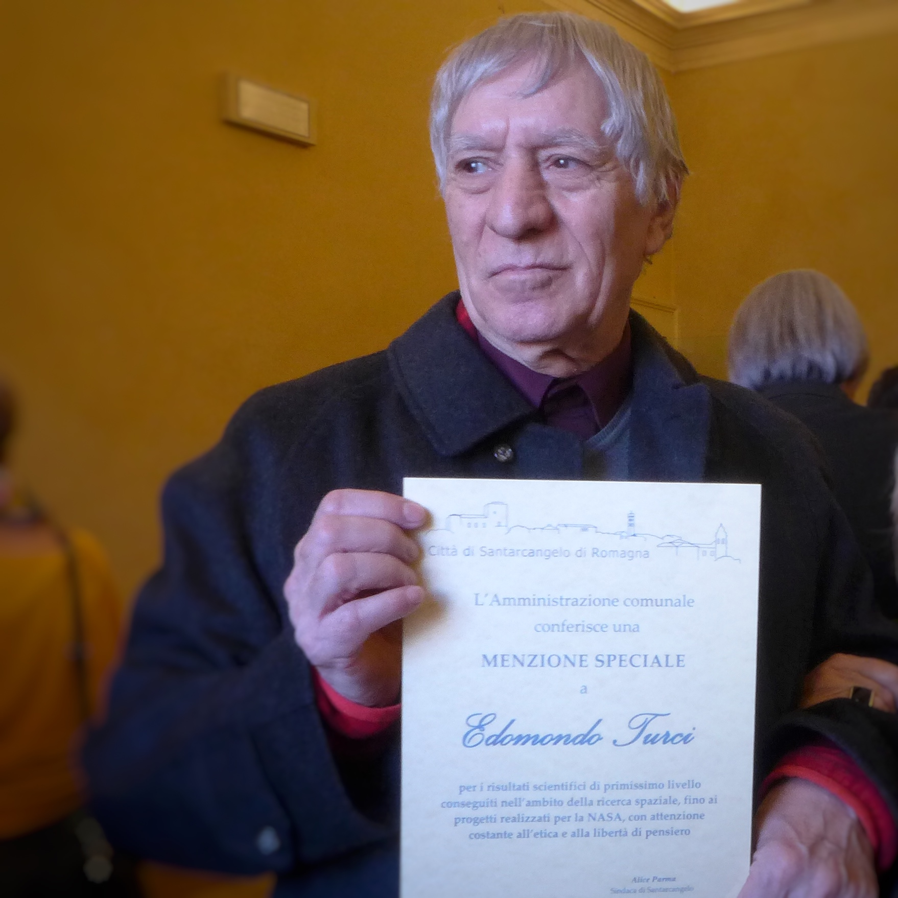 The text reads "To Edmondo Turci for the top-level scientific results achieved in the field of space research, up to the projects created for NASA, with constant attention to ethics and freedom of thought."